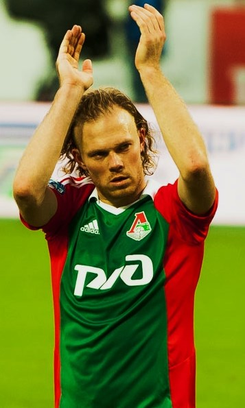 Vitaliy Denisov